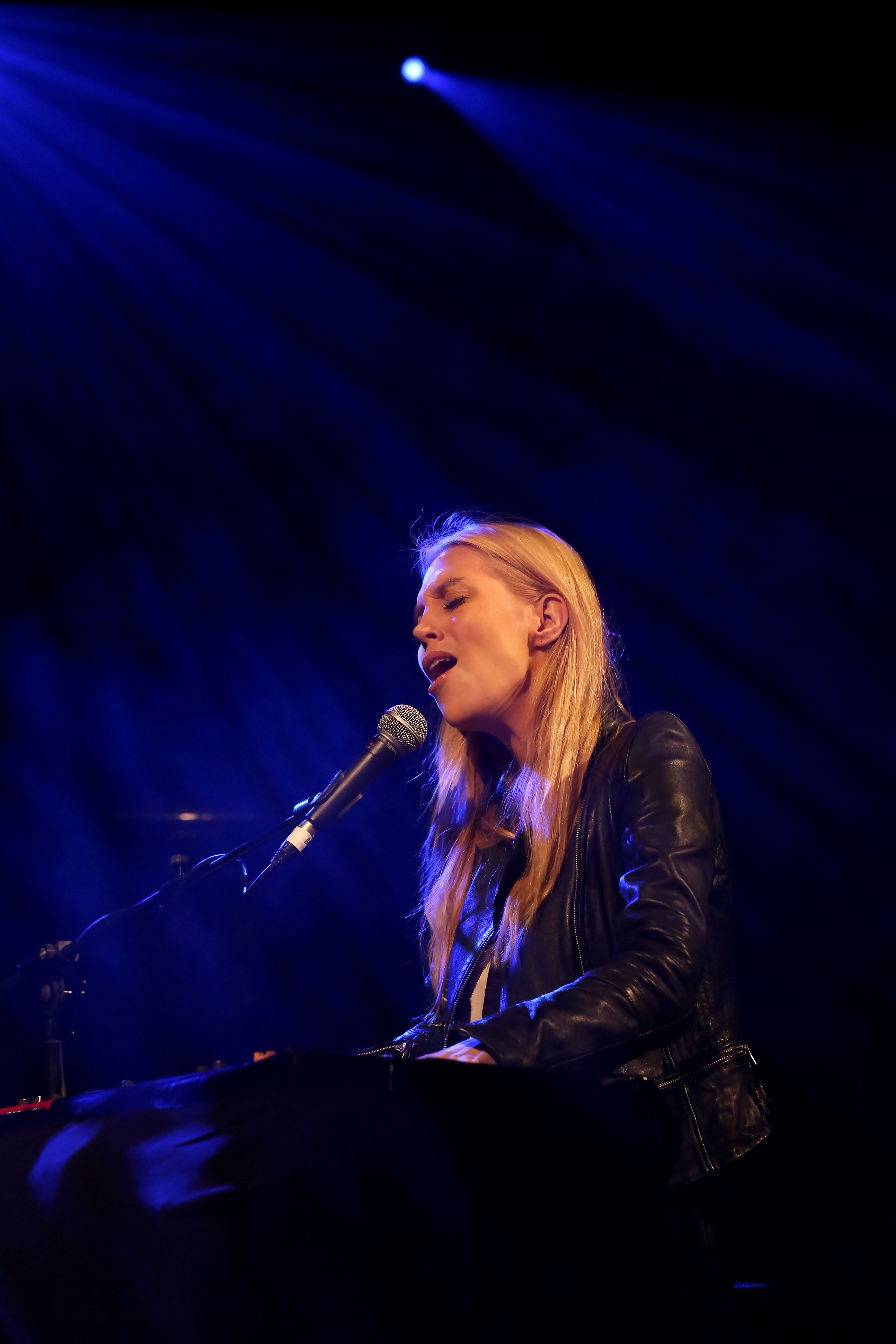 Alexa Feser, concert at Porgy & Bess during Waves Vienna Music Festival & Conference 2014 in Vienna, Austria.